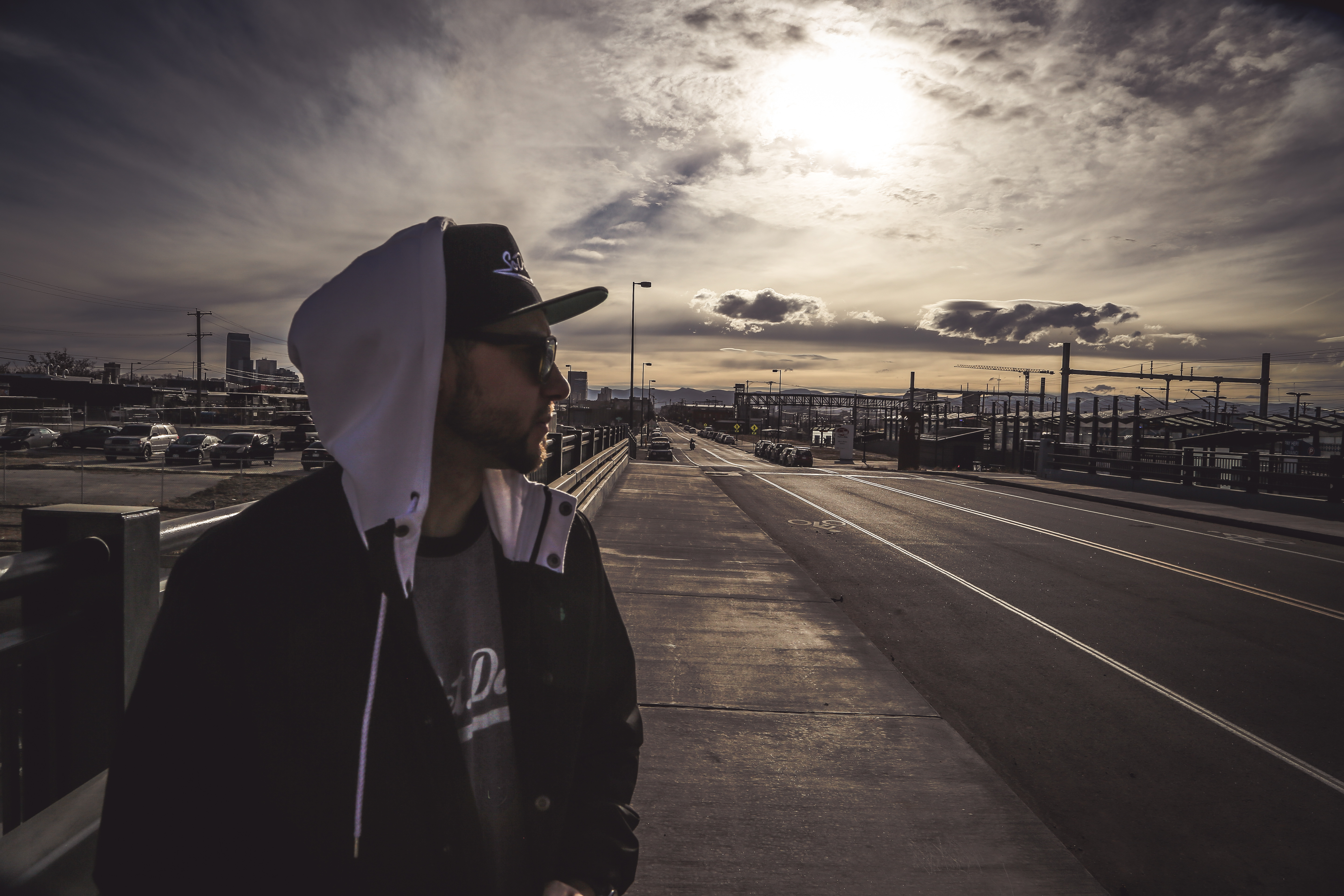 SoDown